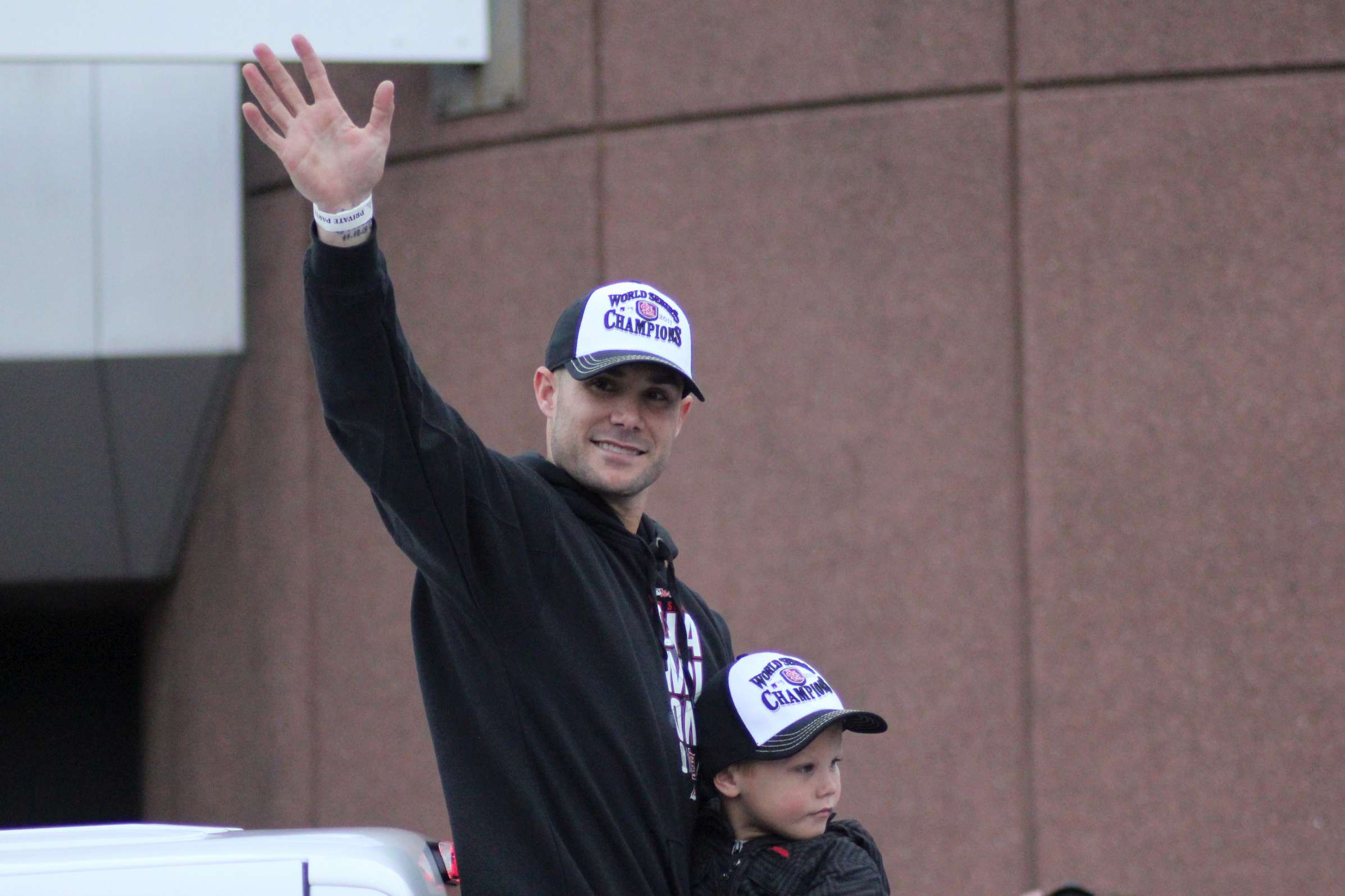 Skip Schumaker during the 2011 World Series victory parade Saint Louis Oct 30, 2011.